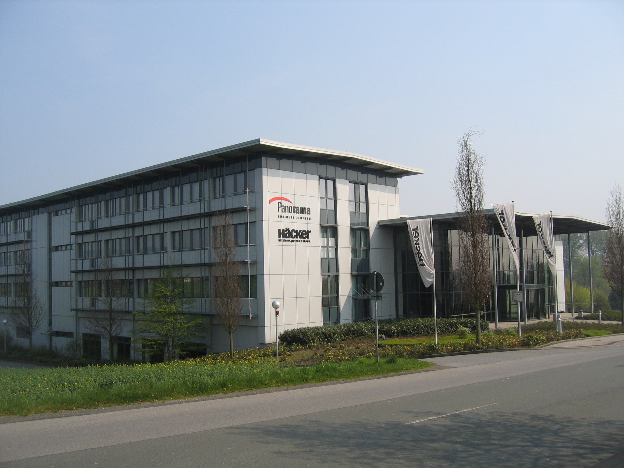 Building of kitchen manufacturer Häcker in Rödinghausen, District of Herford, North Rhine-Westphalia, Germany.